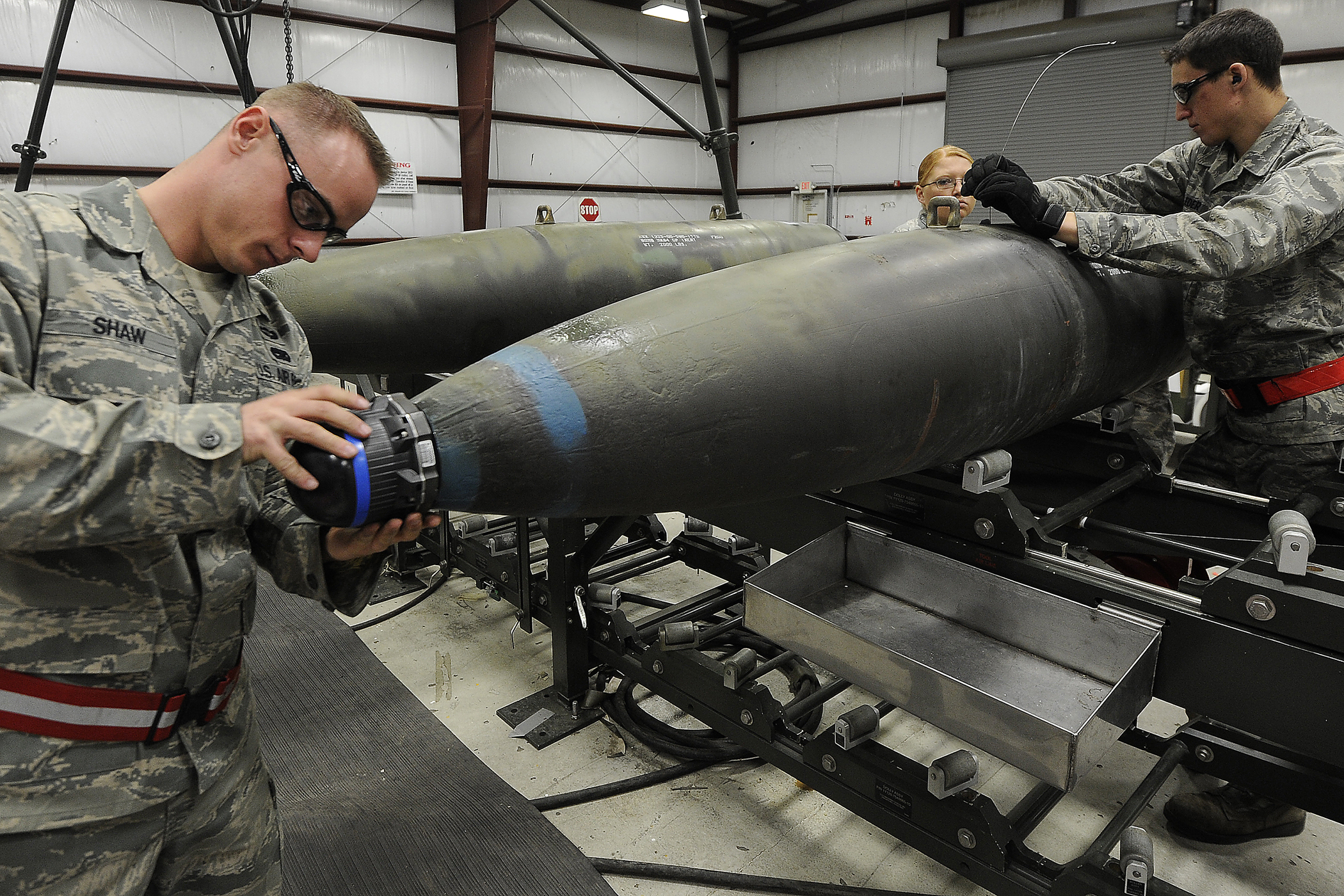 Locked and loaded: Airmen assigned to the 388th Munitions Squadron assemble a guided bomb unit-31 joint direct attack munition March 4, 2011, at Hill Air Force Base, Utah, as part of an operational readiness exercise.